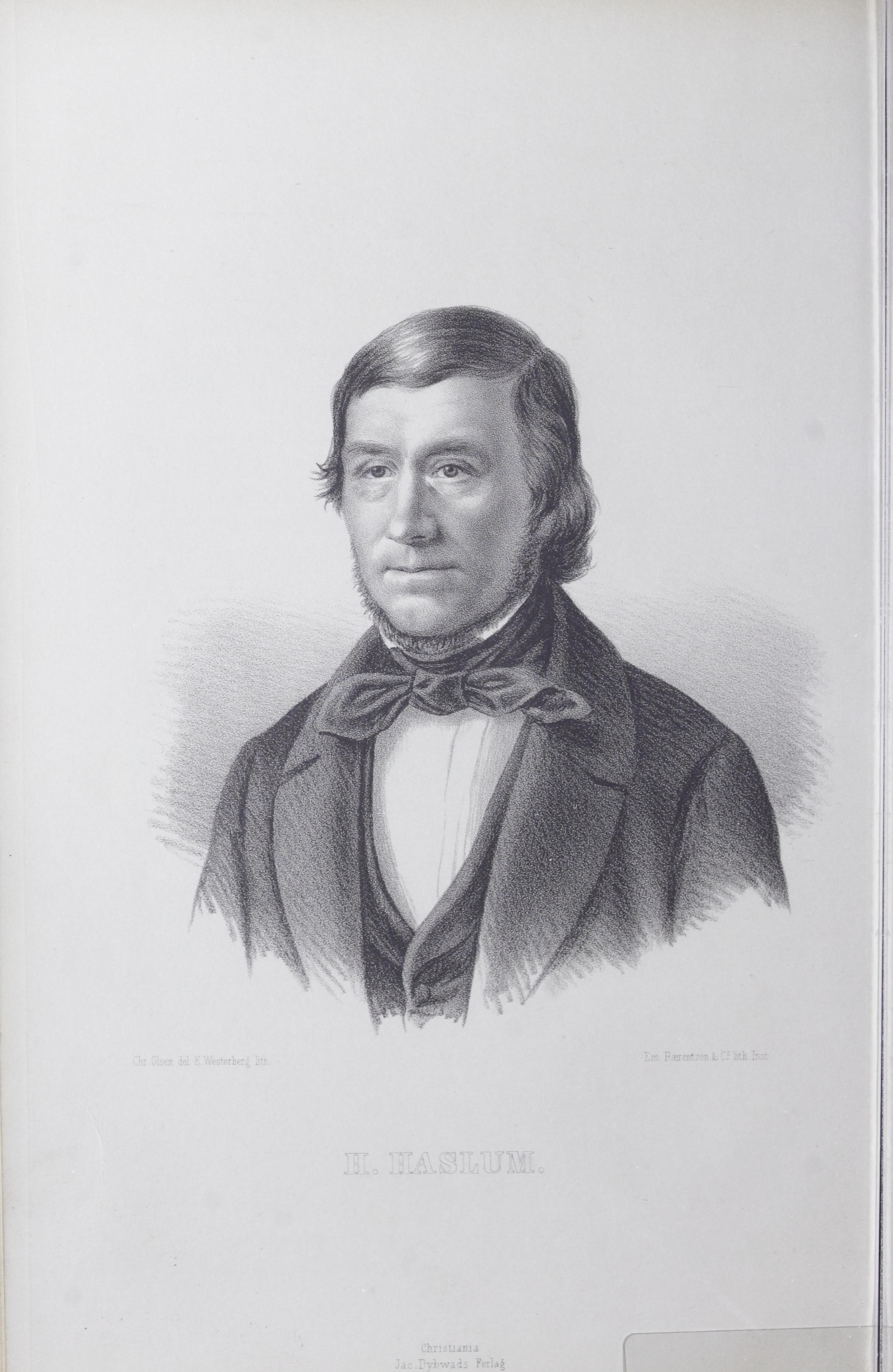 Illustration from the book "Eidsvold-galleri" by Botten-Hansen, Paul and published by Jac. Dybwad (Christiania, 1856-1860). Lithograph by Emil Westerberg after Christian Olsen, printed at Em. Bærentzen & Co lith. Inst.